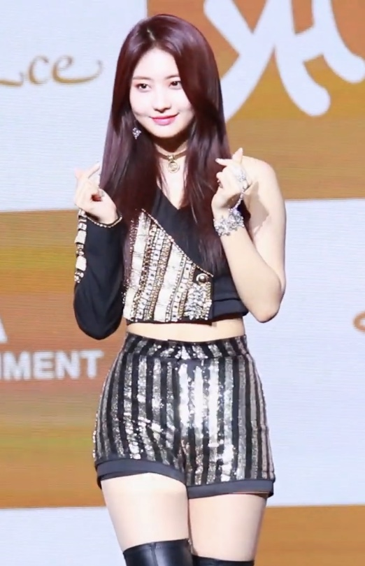 Sihyeon on February 3, 2020 at Everglow showcase